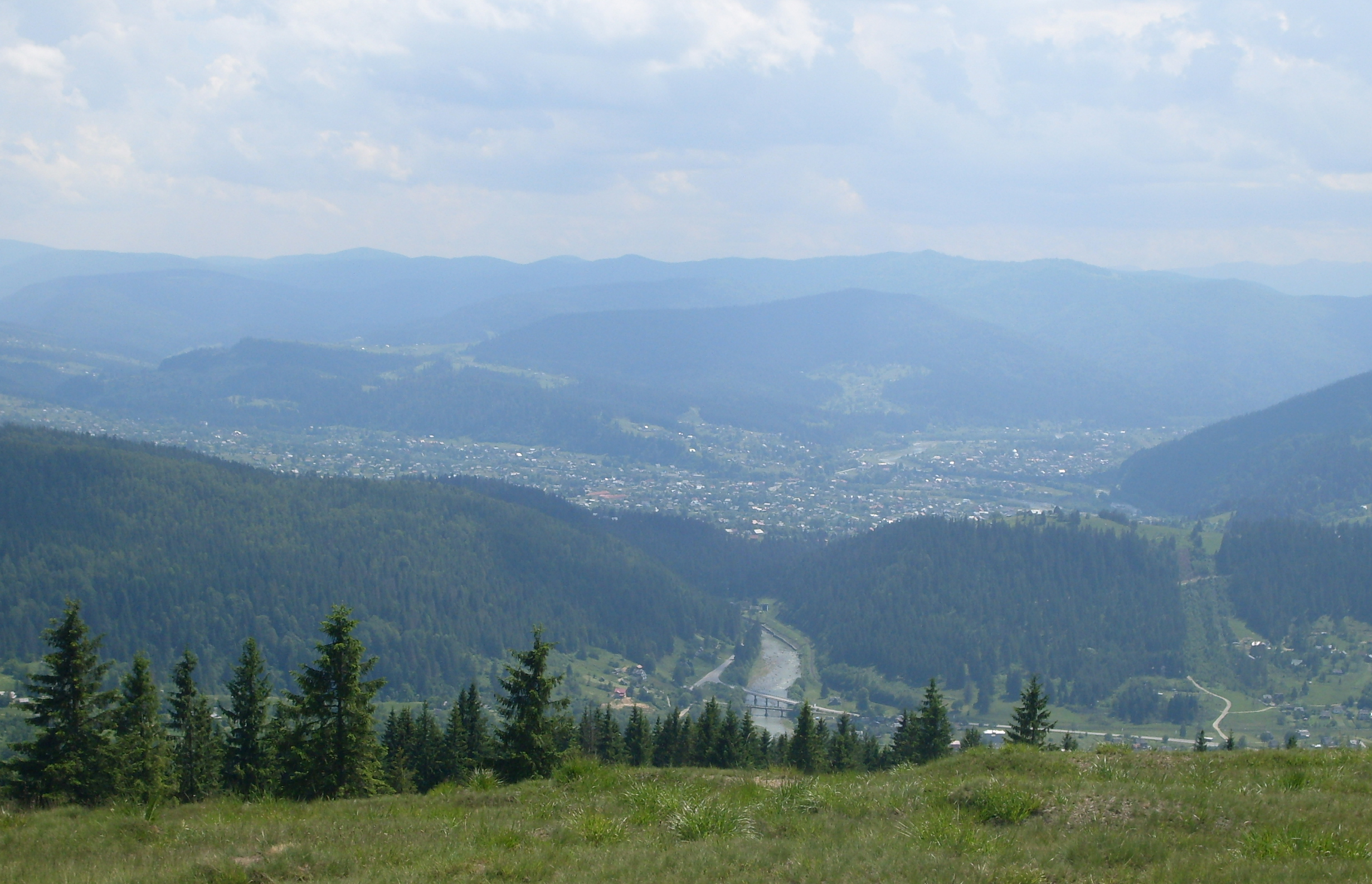 View of the Mykulychin from Makovytsa mountain